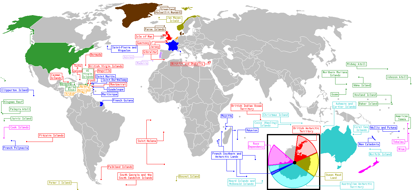 Overseas territories, colonies, dependencies and possessions.